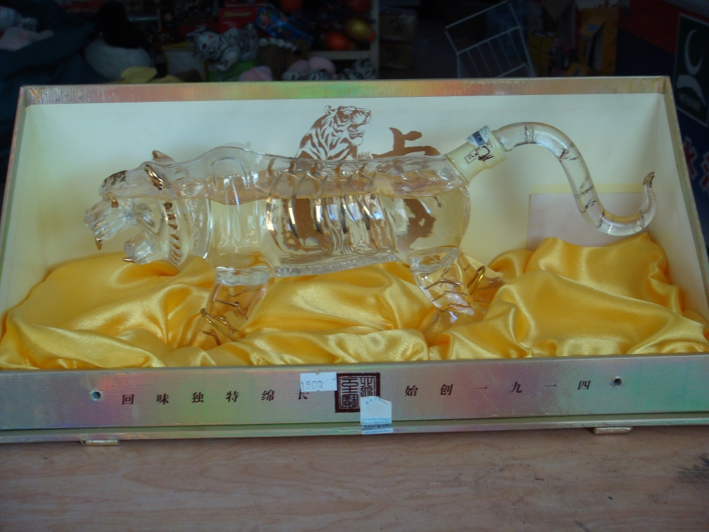 Tiger Bone Wine - from Environmental Investigation Agency (